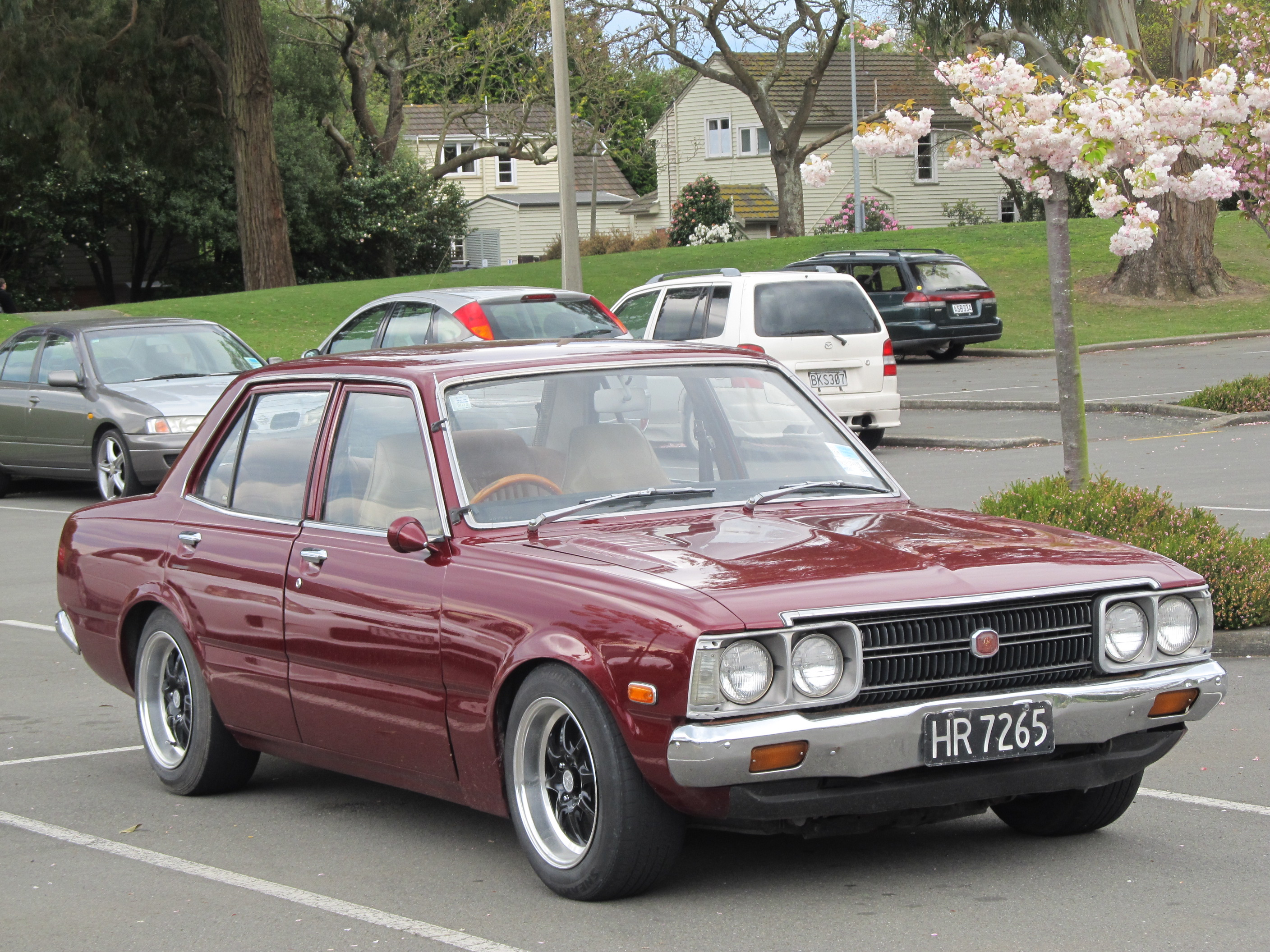 HR7265 As promised, here is the Corona seen in the background of the Tredia x2 photo. This was tastefully modified, and actually looks quite good on those wheels! This car park at the University of Canterbury was really quite good for spots... Watch this space.